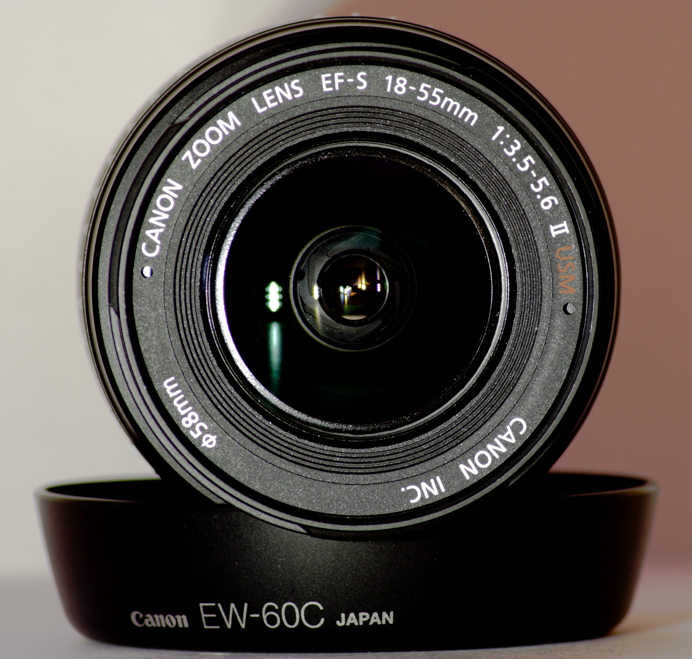 Canon lens EF-S 18-55 II USM with lens hood EW60C